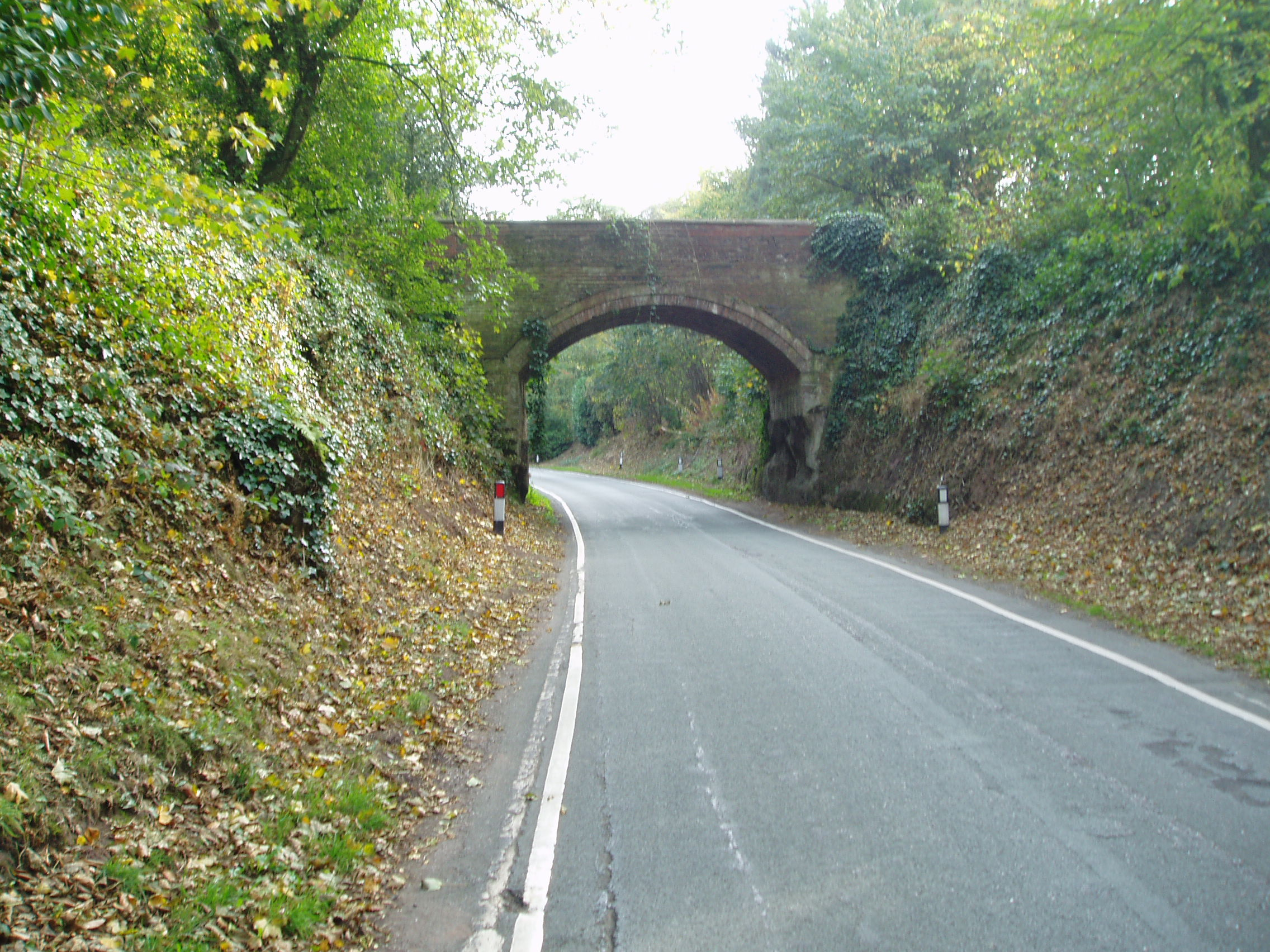 Little Hales Bridge carried a track from Little Hales Manor Farm over the Donnington Wood Canal. The bed of the canal now forms part of the road to Lilleshall Hall National Sports Centre.